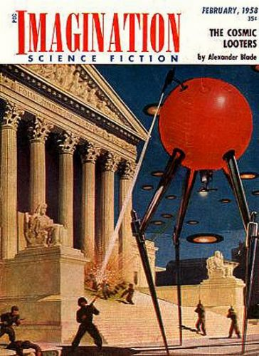 Cover of Imagination, February 1958